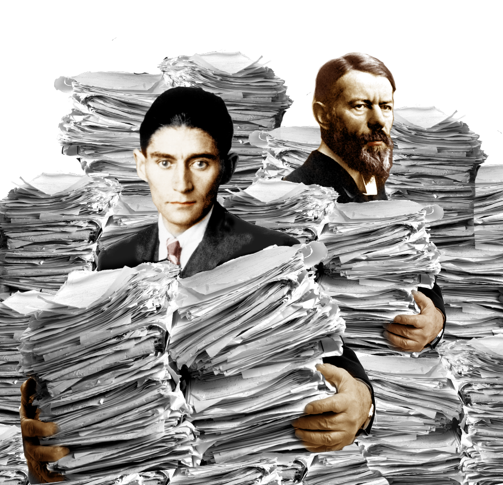 Illustration for bureaucratic articles